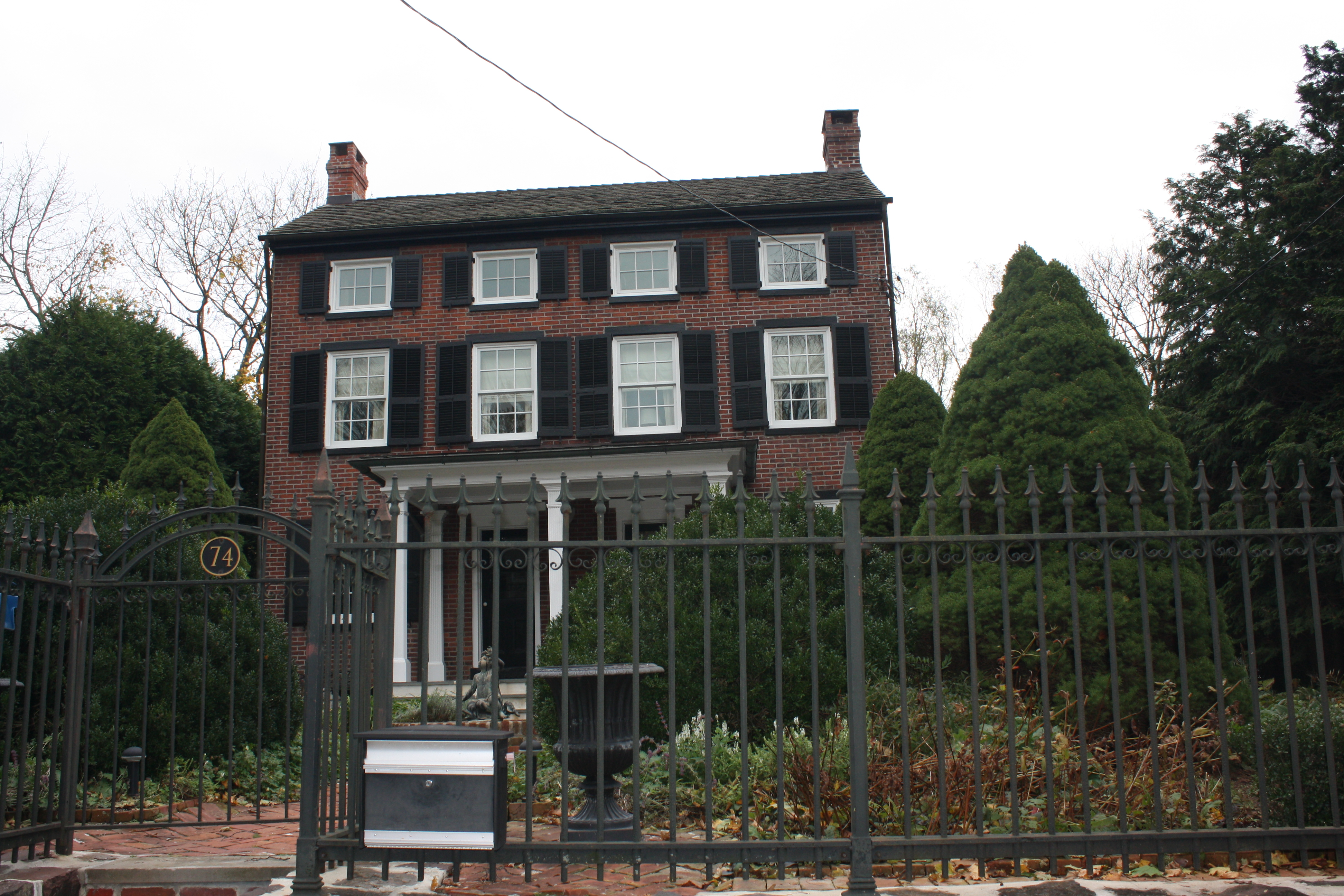 Springdale Historic District (New Hope, Pennsylvania), a national historic district located in New Hope, Bucks County, Pennsylvania. 74 Old York Rd. Object location40° 21′ 42.84″ N, 74° 57′ 50.04″ W